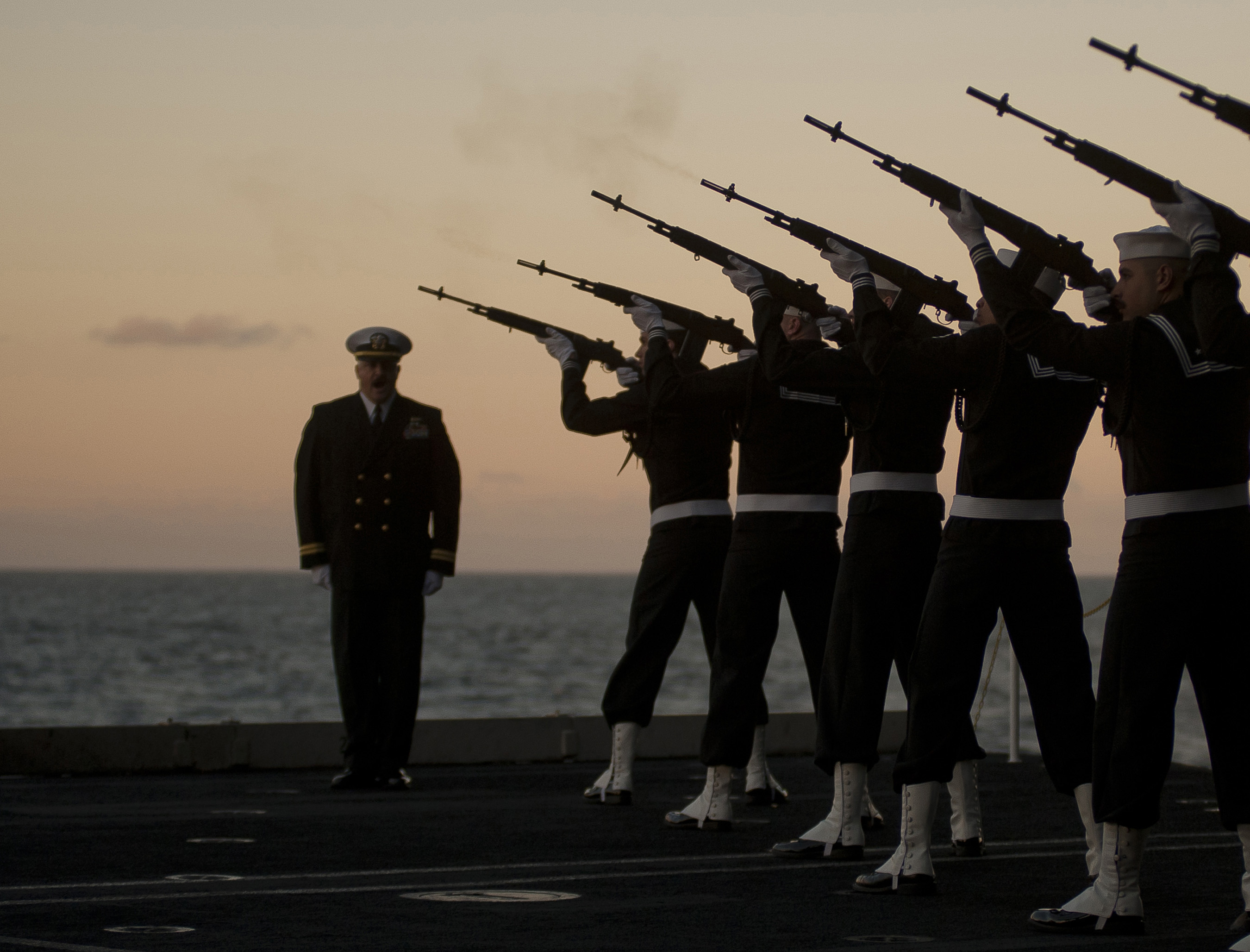 PACIFIC OCEAN (Oct. 7, 2011) Sailors on a rifle detail fire volleys during a burial at sea for 21 former service members aboard the Nimitz-class aircraft carrier USS Carl Vinson (CVN 70). The Carl Vinson Carrier Strike Group is underway conducting operations off the coast of Southern California. (U.S. Navy photo by Mass Communication Specialist 2nd Class James R. Evans/Released) 111007-N-DR144-323